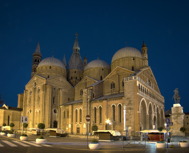 Sant'Antonio Basilica, Padua, Veneto, Italy.